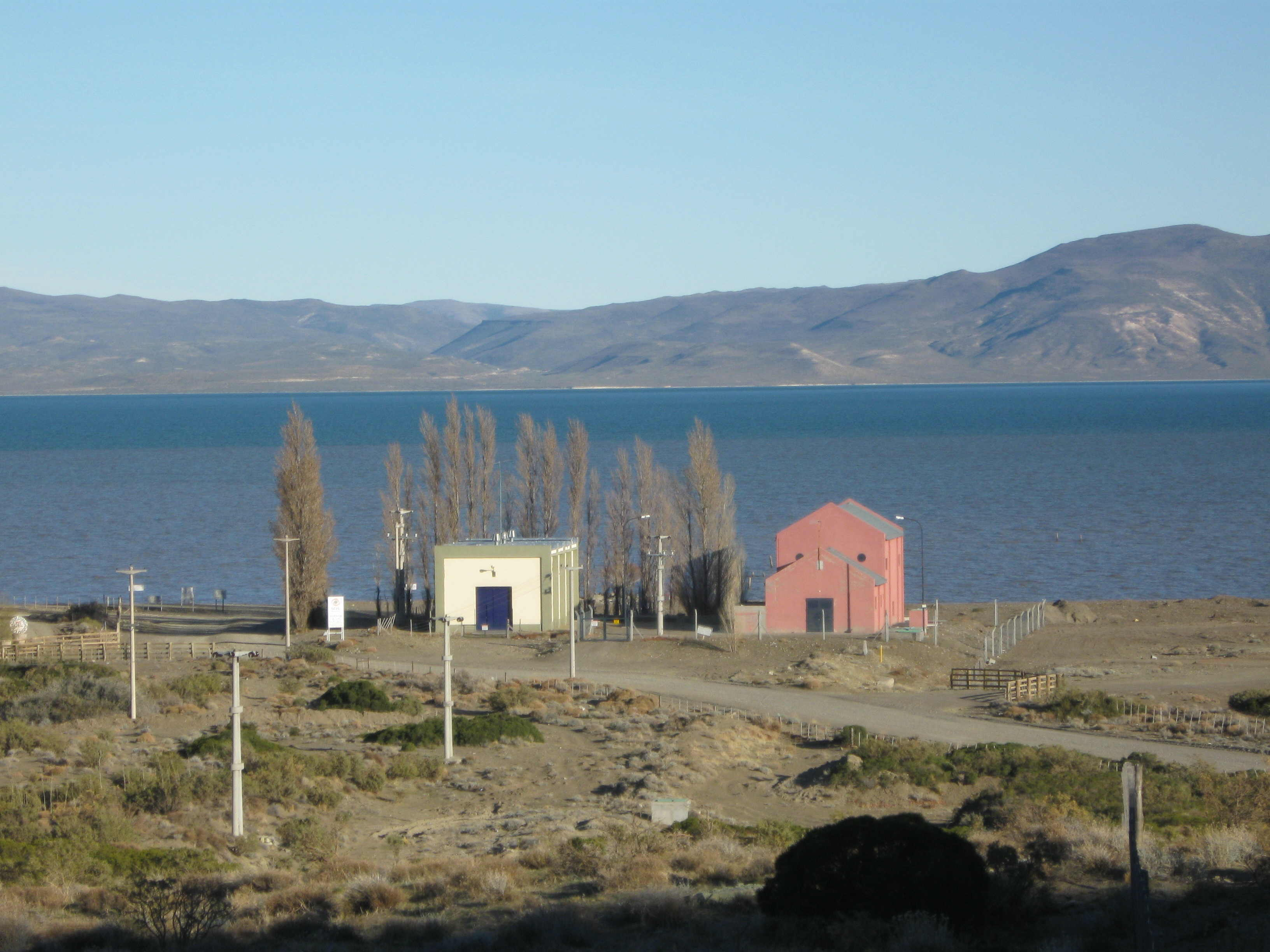 Edificios de toma de agua del Sistema Acueducto en Lago Musters